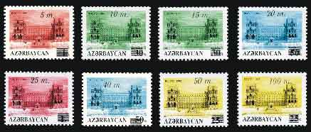 Stamp of Azerbaijan